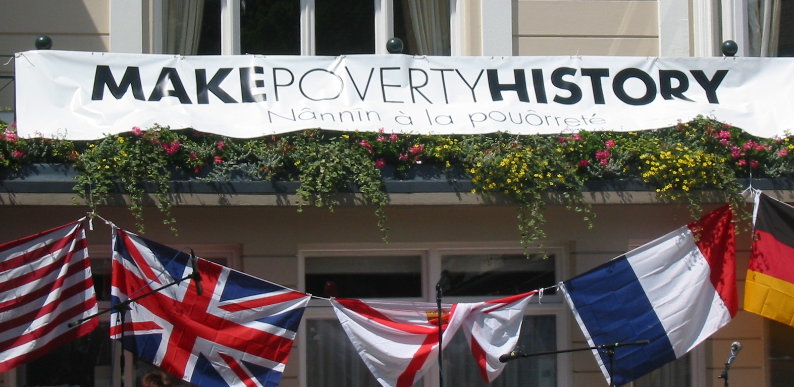 Event for Make Poverty History in the Royal Square, Jersey, 2nd July 2005. Wording on the banner in Jèrriais reads: Nânnîn à la pouôrreté (No to poverty)